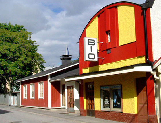 Cinema in Ekenäs, Finland.